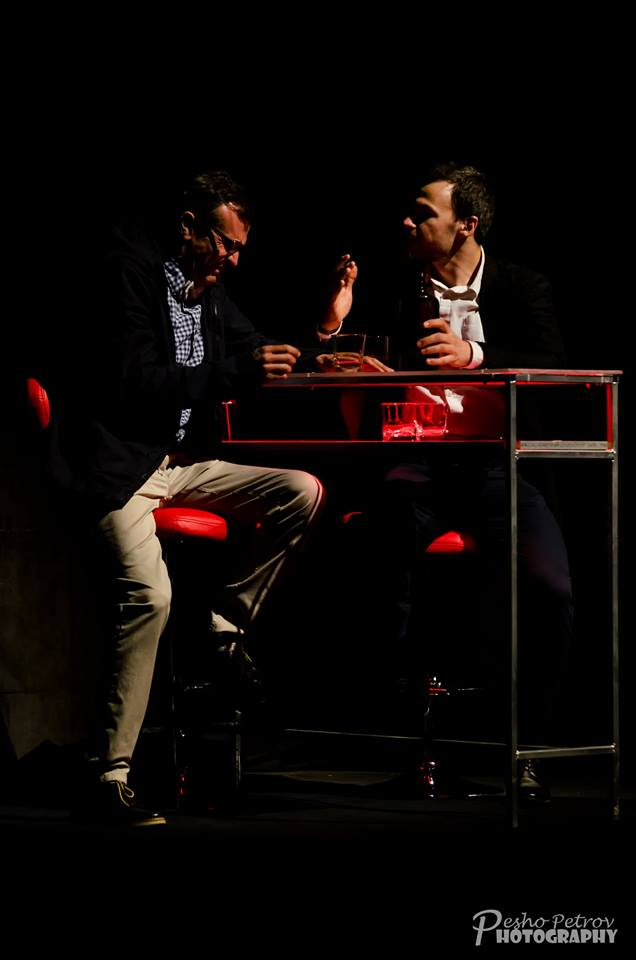 Ivaylo Zahariev (as Ricky Roma) partnering with Plamen Manasiev in AGENTI on Glengarry Glen Ross by David Mamet staged by Vladimir Penev